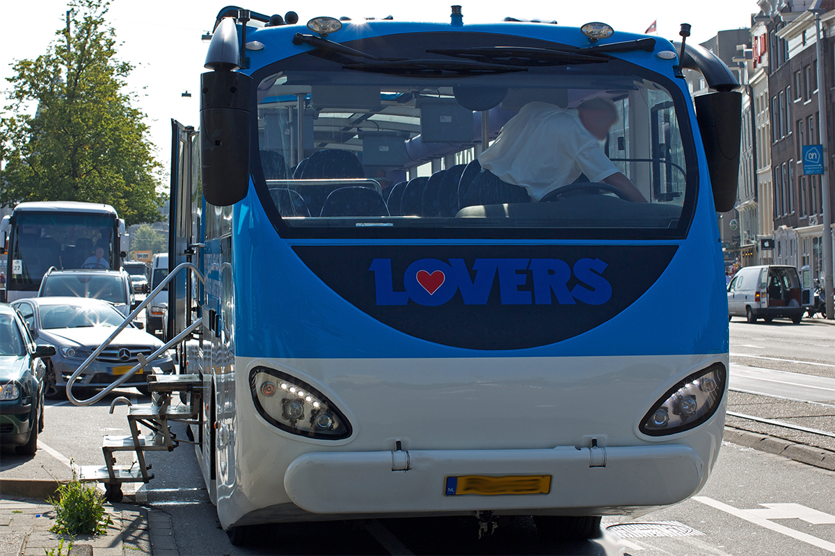 Floating Dutchman Amsterdam central station